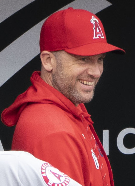 Mike Trout and other Los Angeles Angels in the dugout at Camden Yards during a 2019 game in Baltimore.